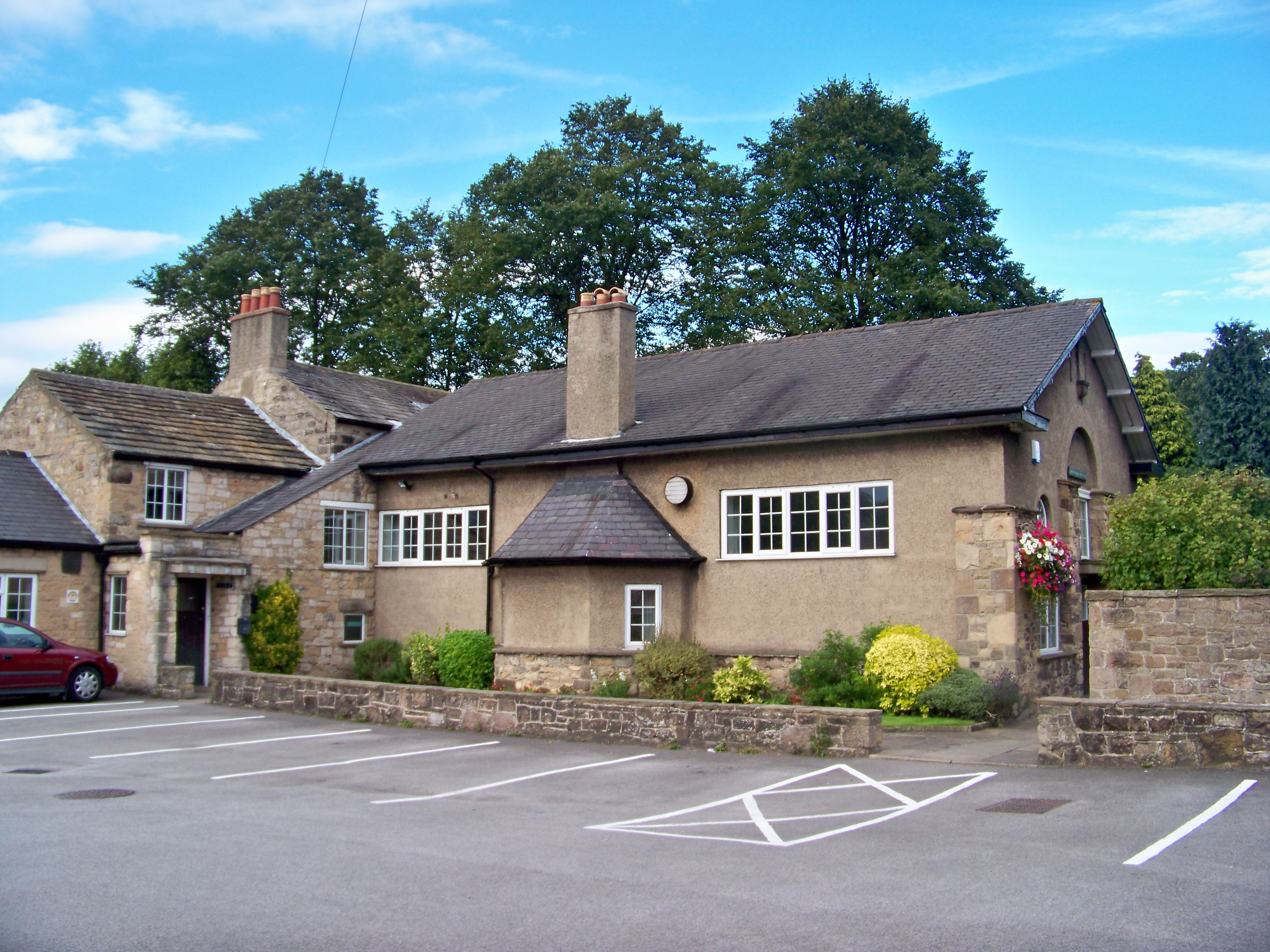 Collingham memorial hall, Collingham, Leeds, West Yorkshire, UK. Taken on the evening of Monday 3rd August 2009.